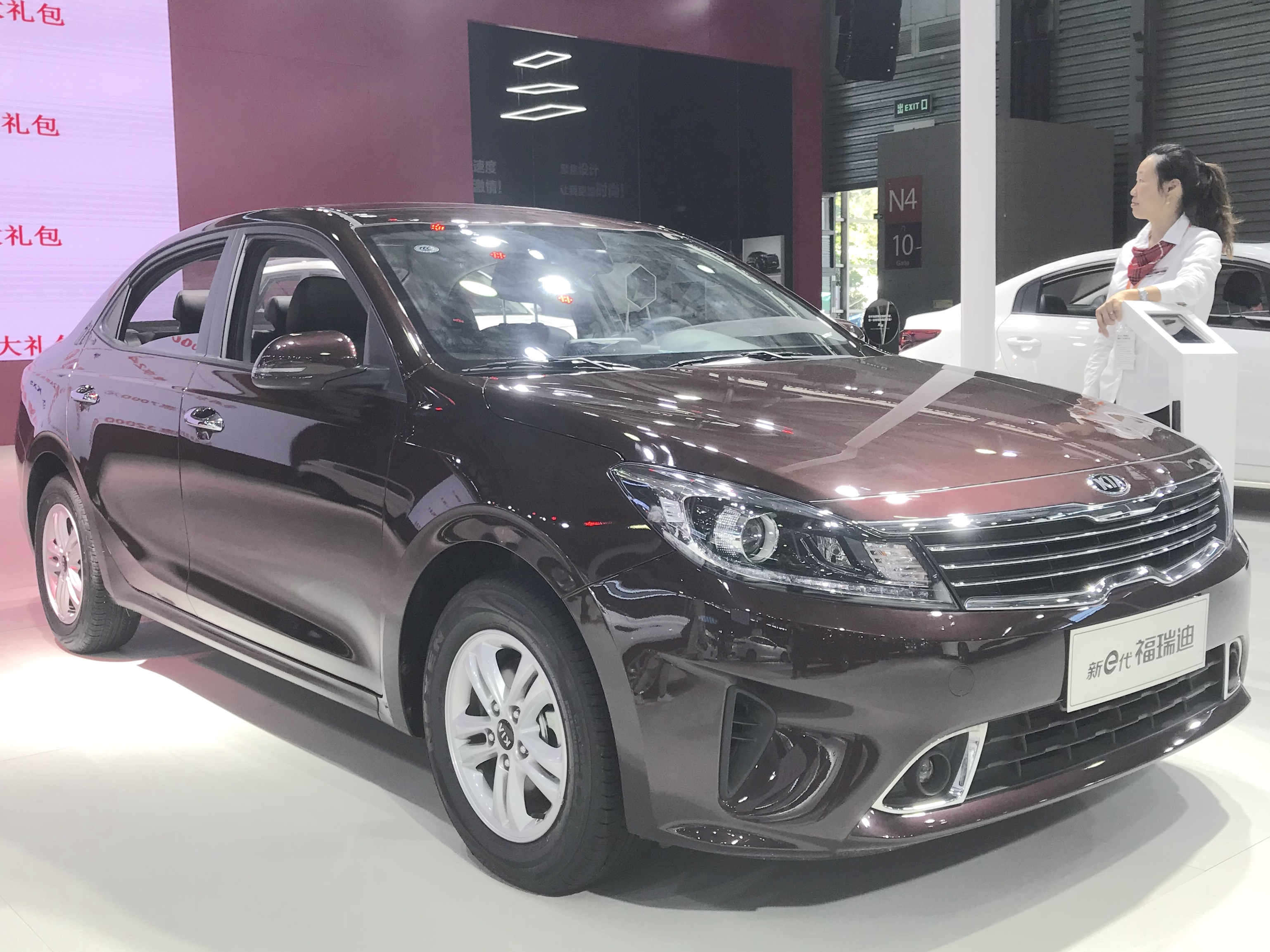 Kia Forte Furuidi (ND) front